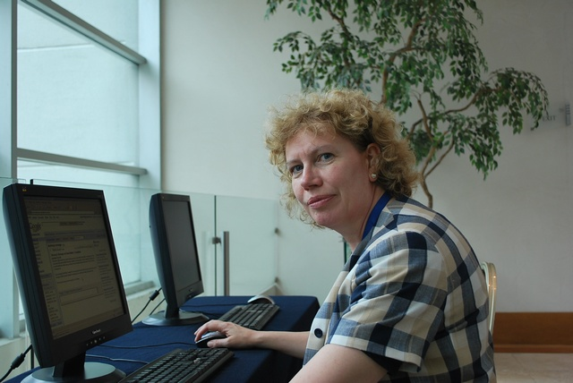 Margaret Patricia Munn, British Foreign Office Minister and Member of Parliament of the United Kingdom, Progressive Governance Conference 2009 in Chile.